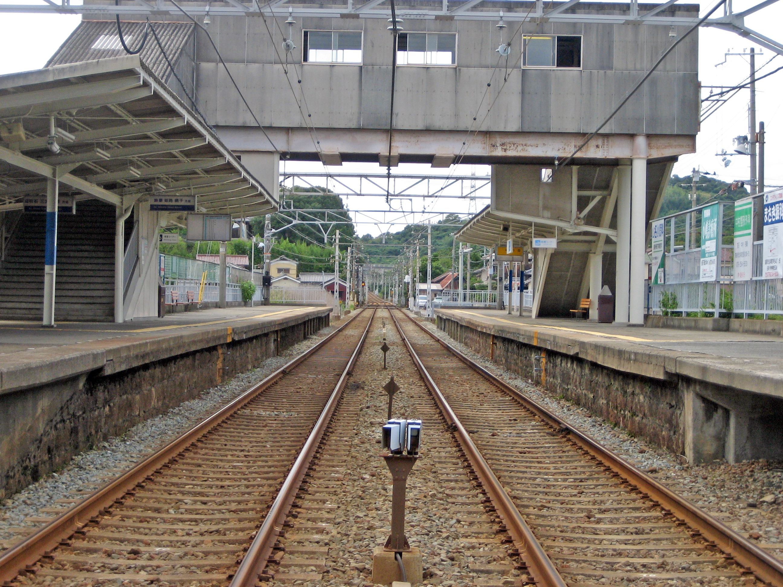 Matogata Station